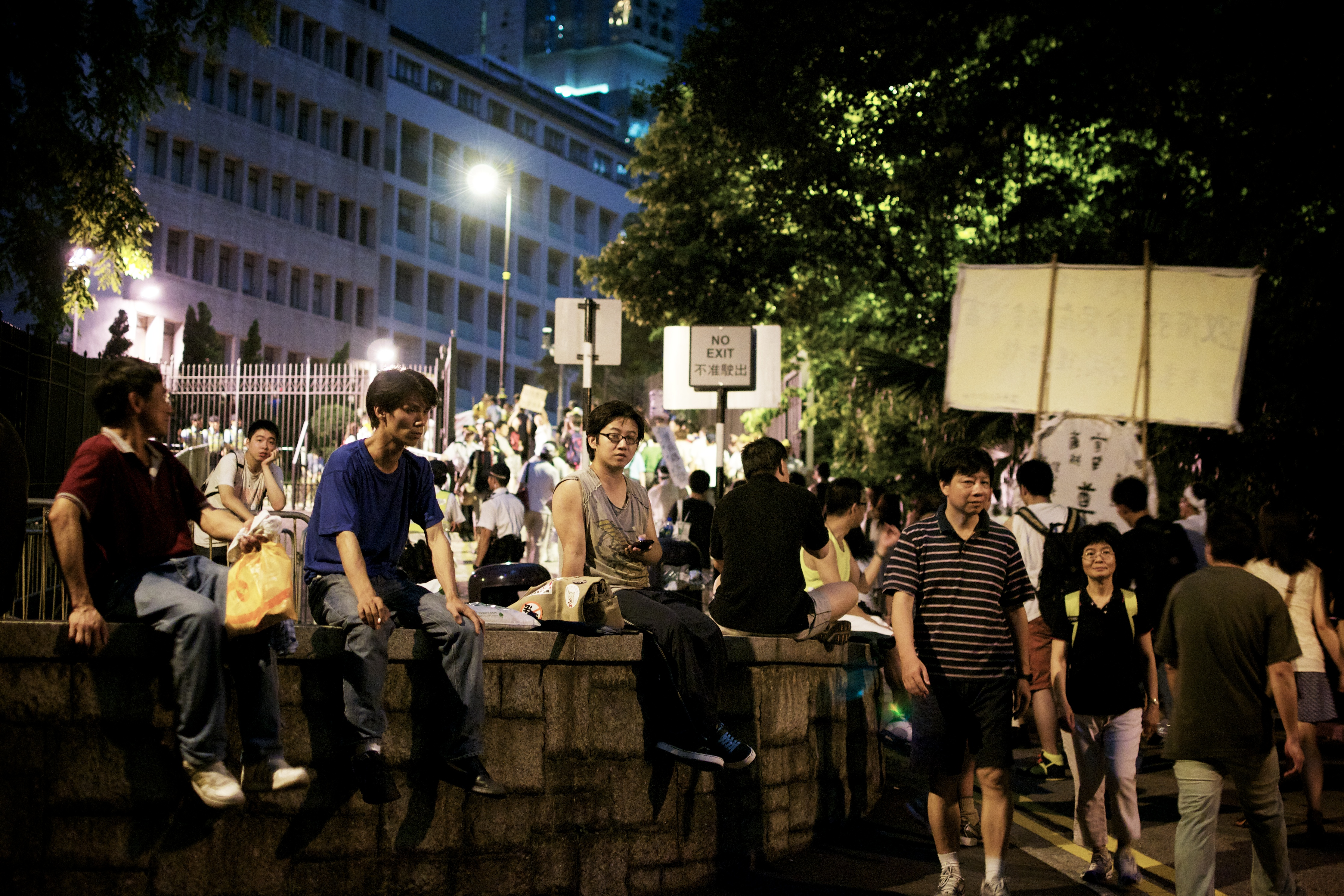 Reaching the End - Government Headquarter